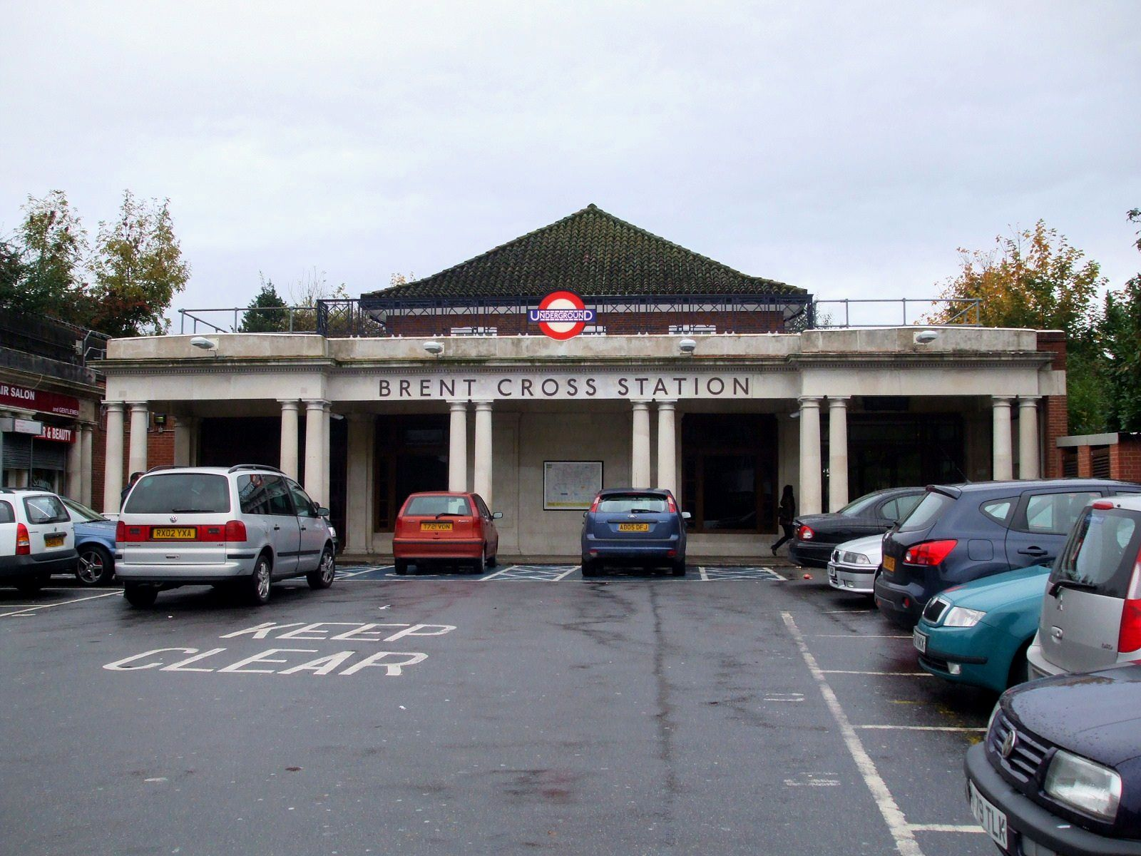 Brent Cross tube station main entrance